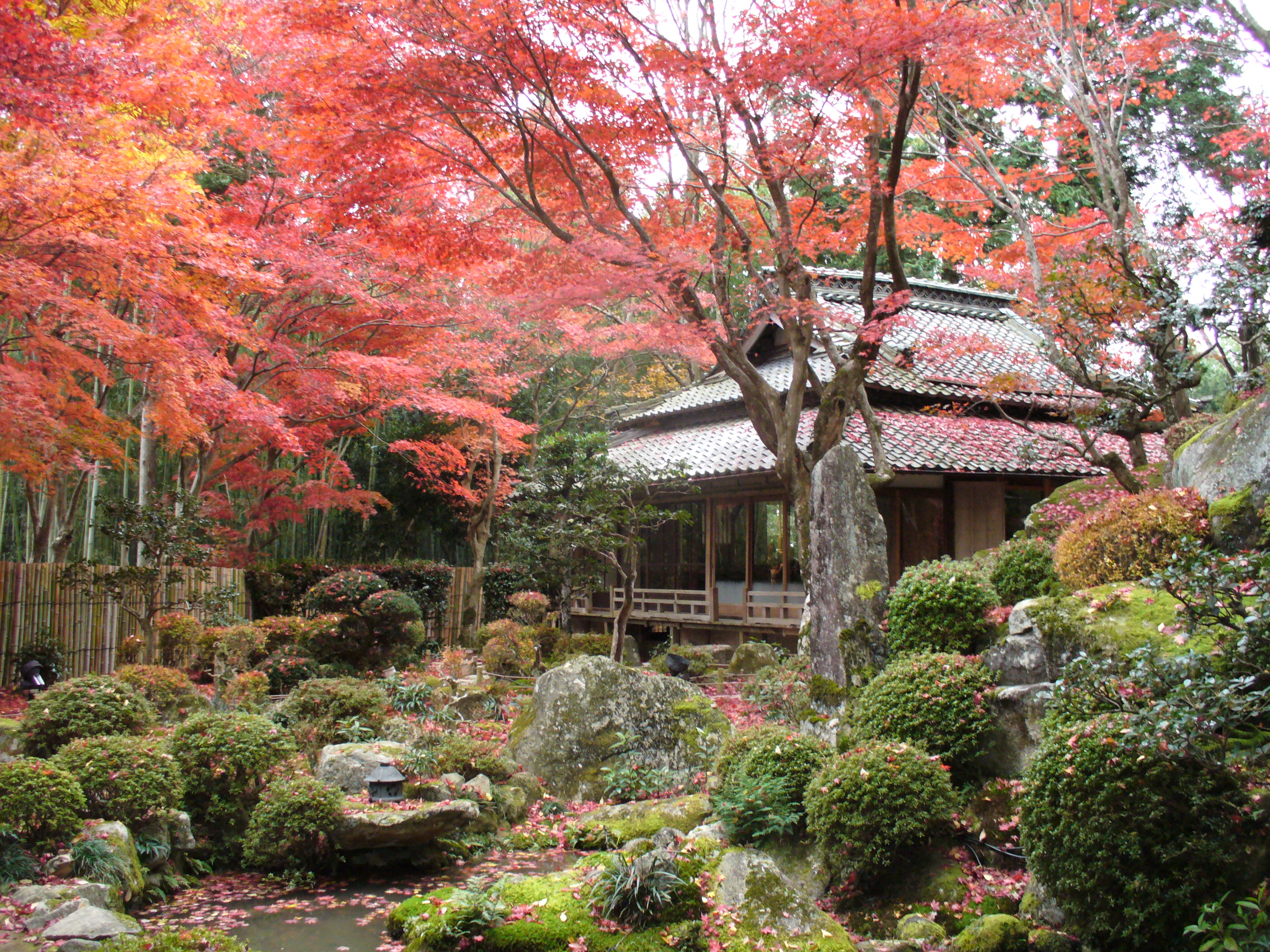 Photograph of Kyourinbou hondou, taken in Aduchi chou, Shiga, Japan.